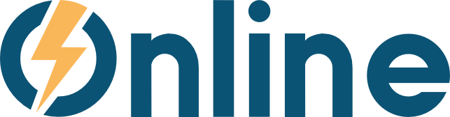 The logo of the student organization Online at the Norwegian University of Technology and Science, as of fall 2019. This logo is the blue version including the text "Online".